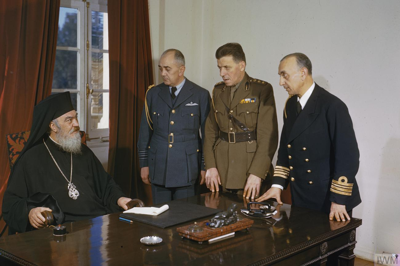 The Archbishop Regent Damaskinos of Greece, 15 February 1945 The Archbishop Regent Damaskinos of Greece with his Services Advisers: Army, Lieutenant Colonel K Vassilikopoulos; Navy, Lieutenant Commander S Boudouris; and Air, Wing Commander B Angelopoulos, in Athens.